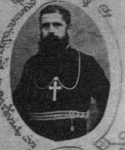 Metropolitan Timotheos of Malabar